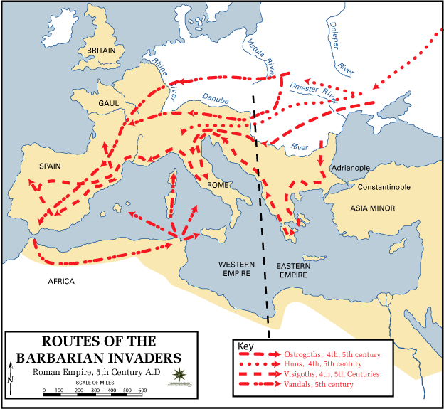 Routes of the barbarian invaders, 5th century AD